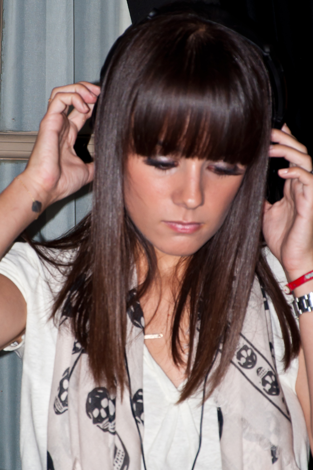 Alizée as guest DJ in Ritz Club (in Ritz Hotel) in Paris (2010-06-18)